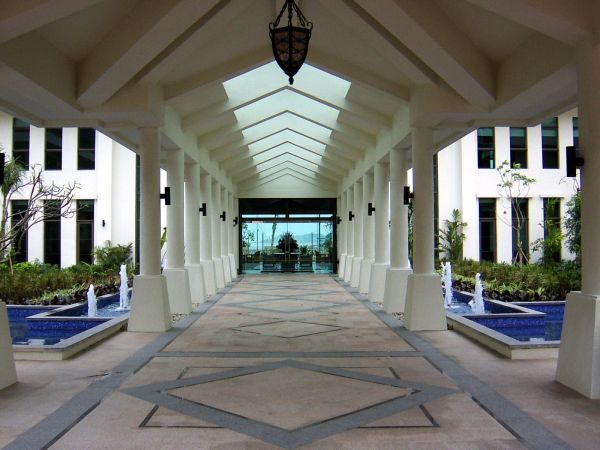 Club Siena, Discovery Bay